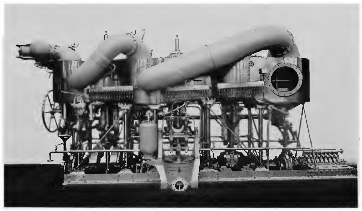 A triple expansion steam engine of about 1900, manufactured by Palmers Shipbuilding and Iron Company of Jarrow, England, and used in Royal Navy torpedo boat destroyers of 30-knot specification. Power was transmitted through the thrust block at furthest right.